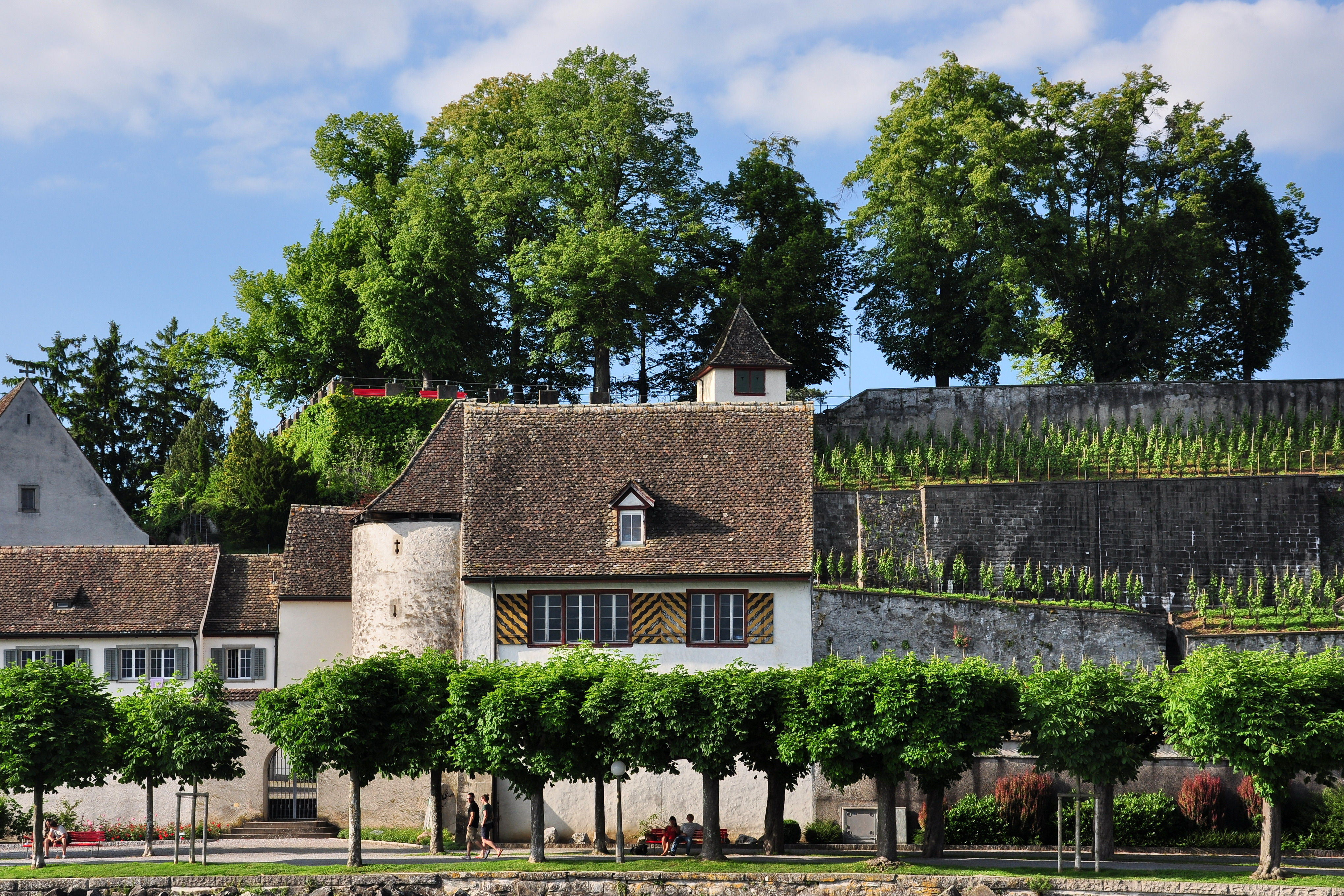 Rapperswil (SG) : Lindenhof hill, Kapuzinerkloster (to the left) and Einsiedlerhaus, as seen from ZSG paddle steamer Stadt Zürich.